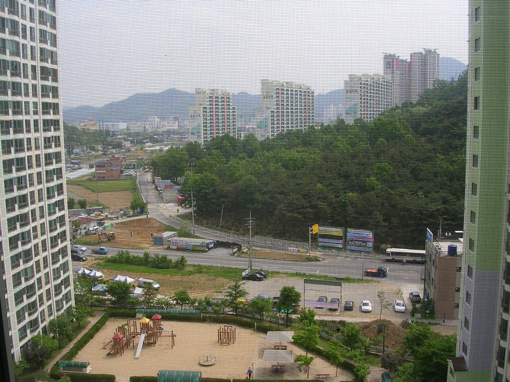 View of Seokjeok facing roughly north toward the main motorway.